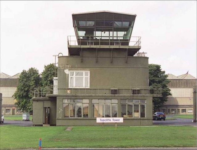 Air Traffic Control, RAF Topcliffe The RAF still has a presence at Topcliffe. The airfield acts as a Relief Landing Ground for RAF Linton-on-Ouse and sits in an enclave inside Alanbrooke Barracks. The 'Topcliffe Tower' sign on the grass in front of the tower, is from a now demolished tower block in Castle Vale, in the West Midlands.